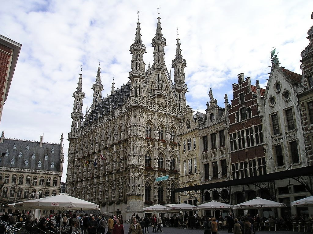 Town hall of Leuven, 03.10.2004